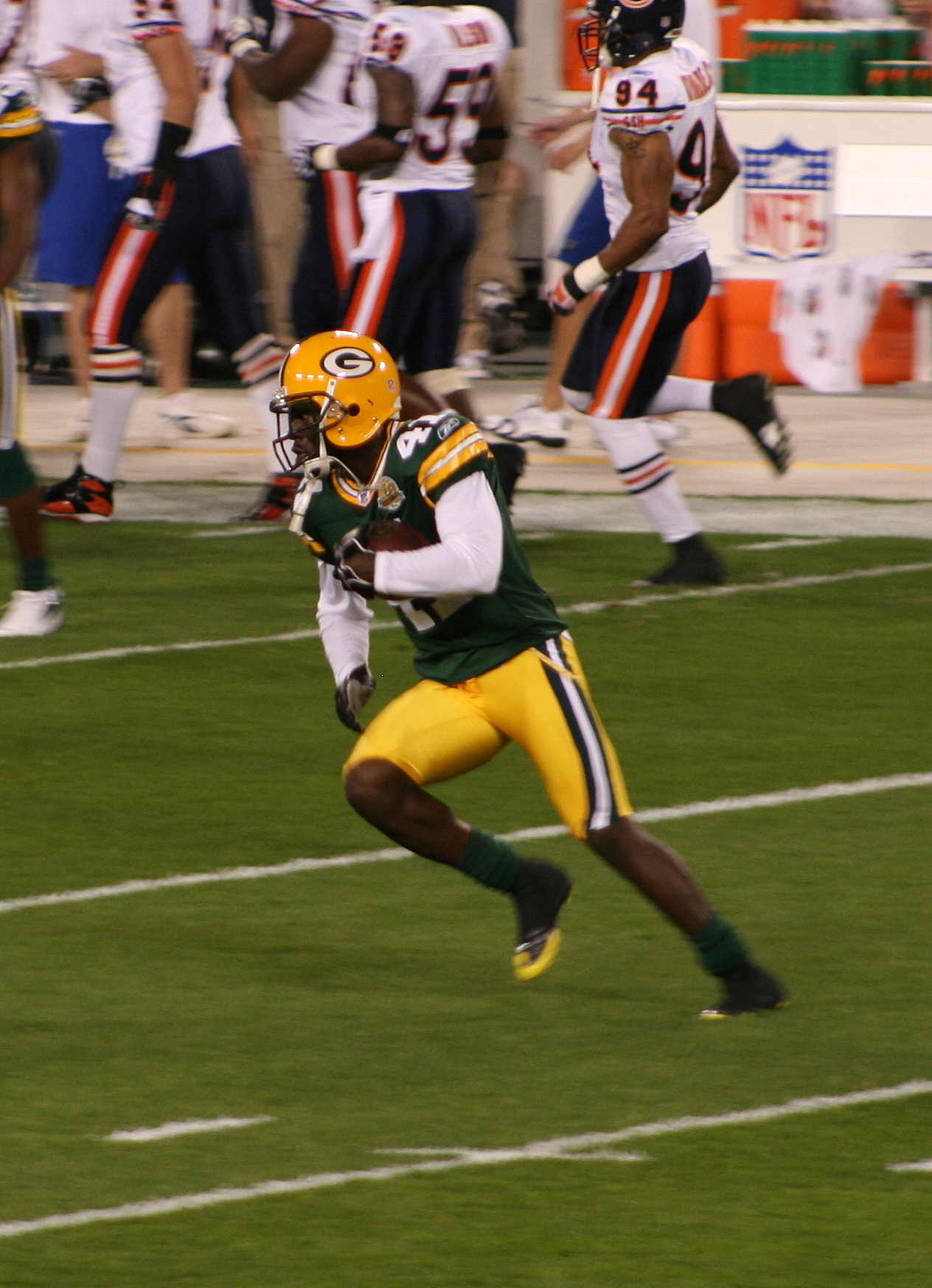 Frank Walker (football player) during warm-ups.